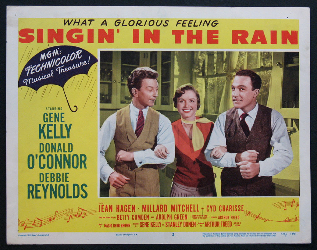 Lobby Card for Singin' In The Rain. The item has no copyright marks as can be seen in the links. At bottom right is a logo indicating the card was produced by a union print shop and Country of origin USA.